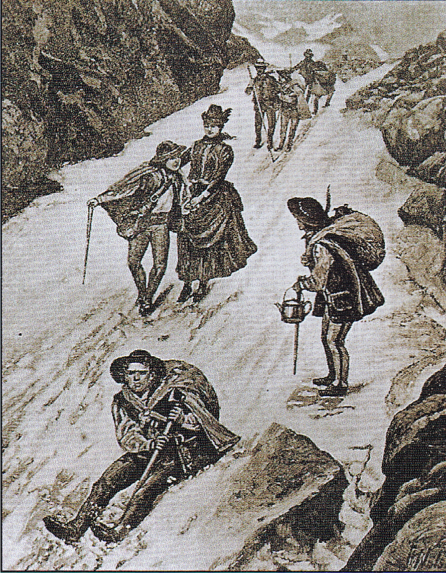 19th Century Historical Photography. Mountain carriers in the High Tatras, Slovakia